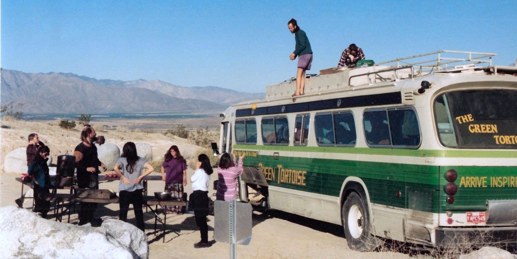 A Green Tortoise tour group on a break in Anza-Borrego Desert State Park, southern California, December 1993